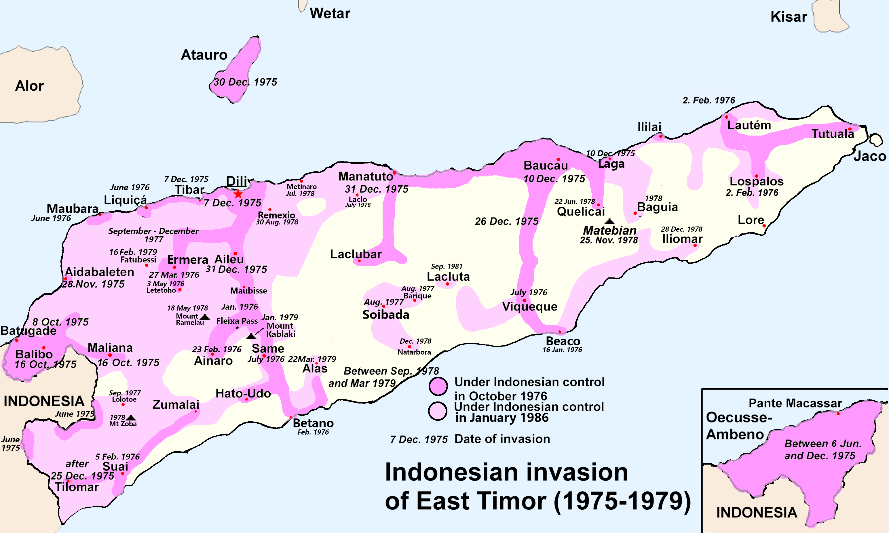 Indonesian Invasion of East Timor (1975-1979)